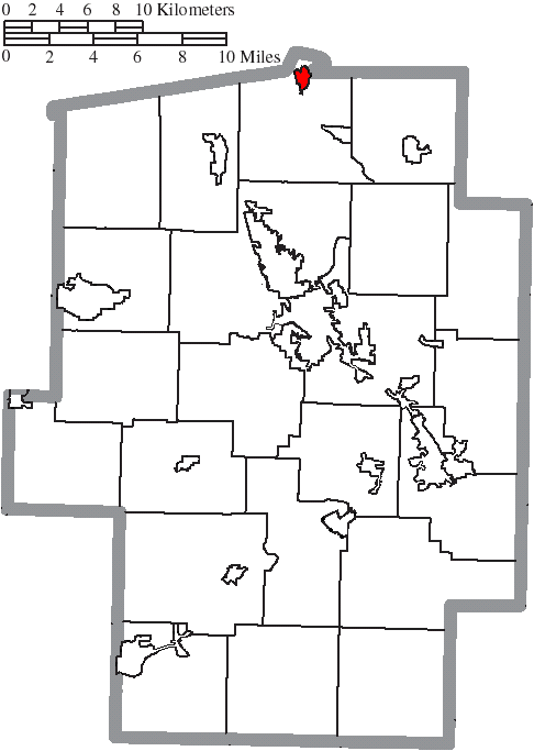 Map of the municipal and township boundaries of Tuscarawas County, Ohio, United States, as of the 2000 census, with the location of the village of Bolivar highlighted. Township borders are shown only in unincorporated areas in order to differentiate incorporated and unincorporated areas more clearly.